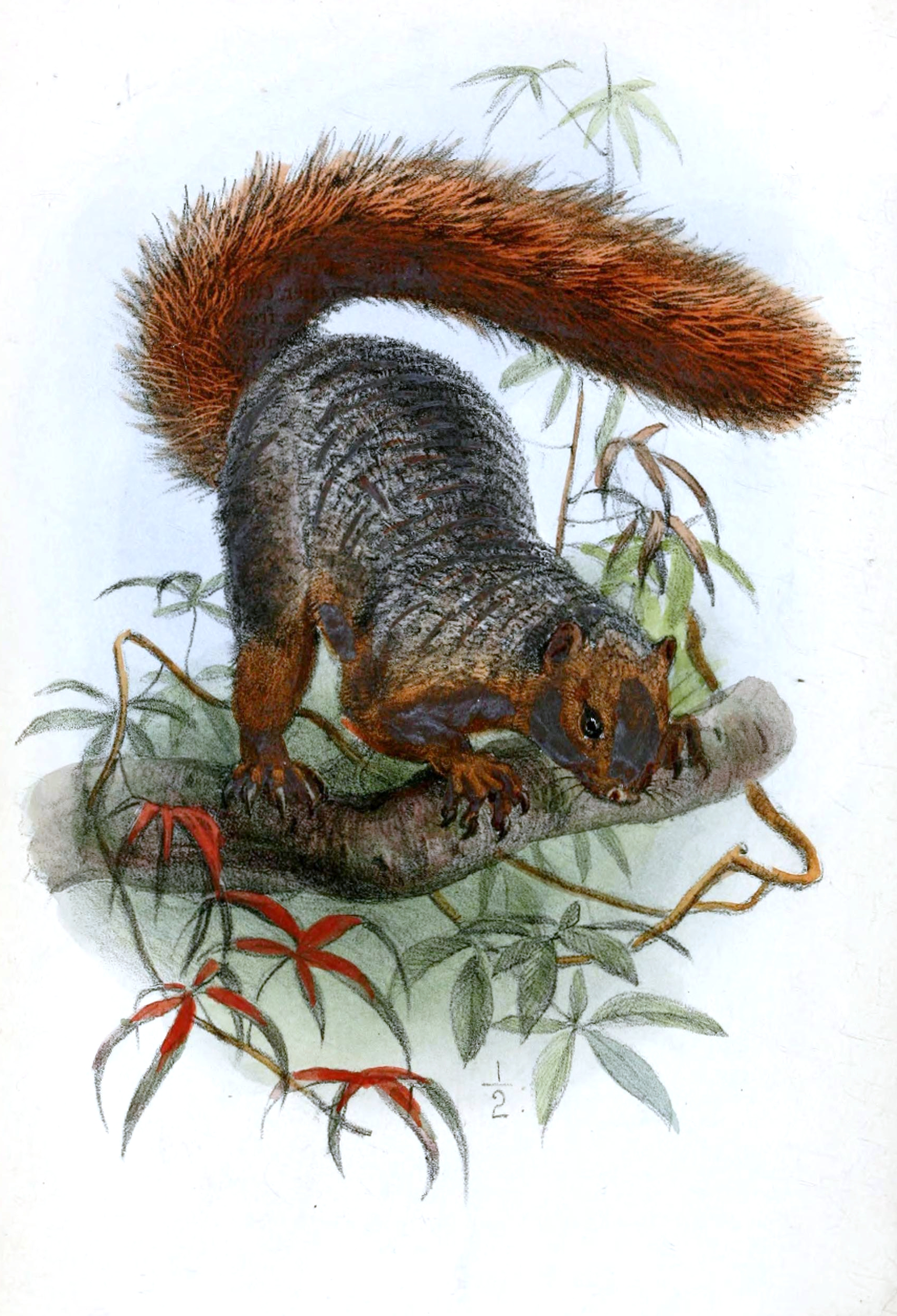 Subspecies P. p. ornatus of the Red bush squirrel is endemic to oNgoye Forest near Eshowe in KwaZulu-Natal, South Africa